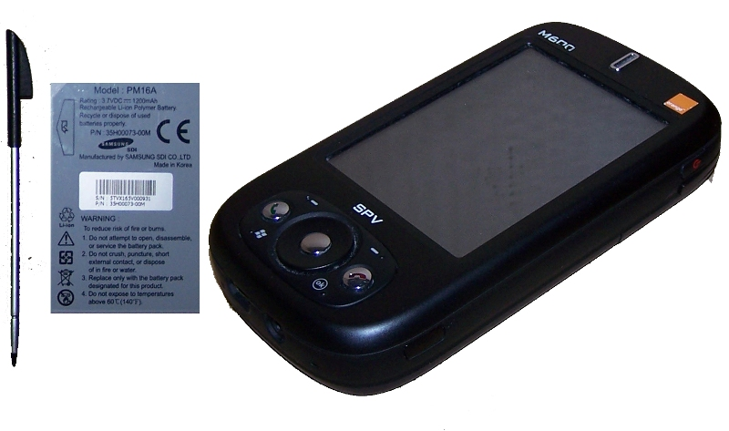 Category:High Tech Computer Corporation